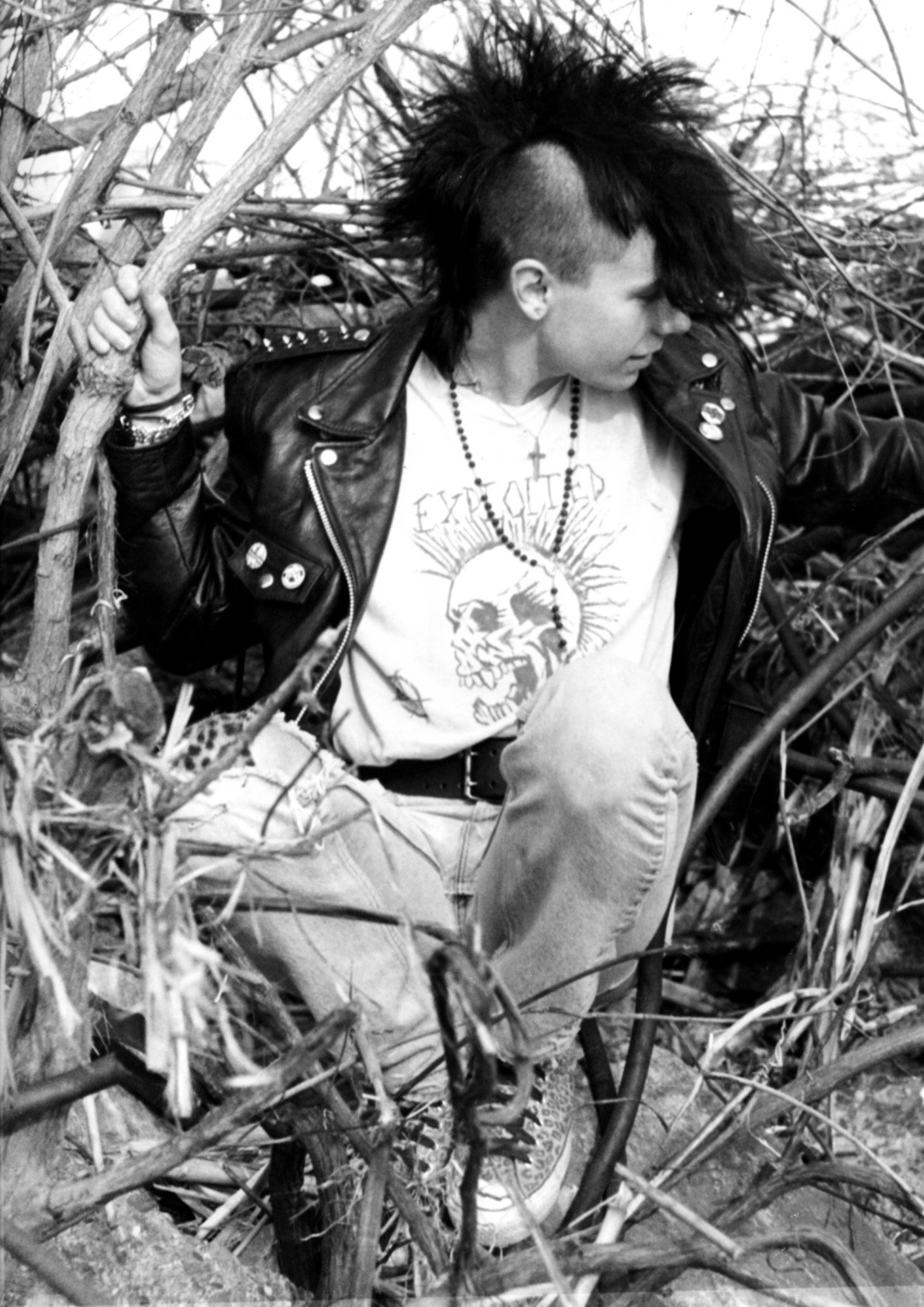 Young punk with mohawk hairstyle and "the exploited" t-shirt. Evansville, Indiana.